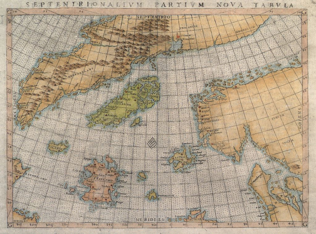 This is a map from kort.bok.hi.is, a collection of antique maps of Iceland from the National and University Library of Iceland and the Central Bank of Iceland which have been converted to a digital format. Title: Septentrionalivm partivm nova tabvla